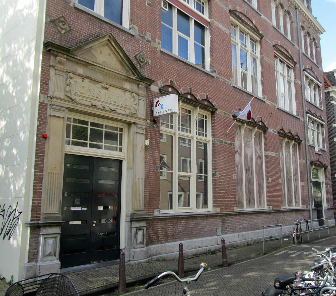 Rozenstraat 14 in Amsterdam: from 1978 till 2011 the headquarters of COC, the Dutch gay rights organization